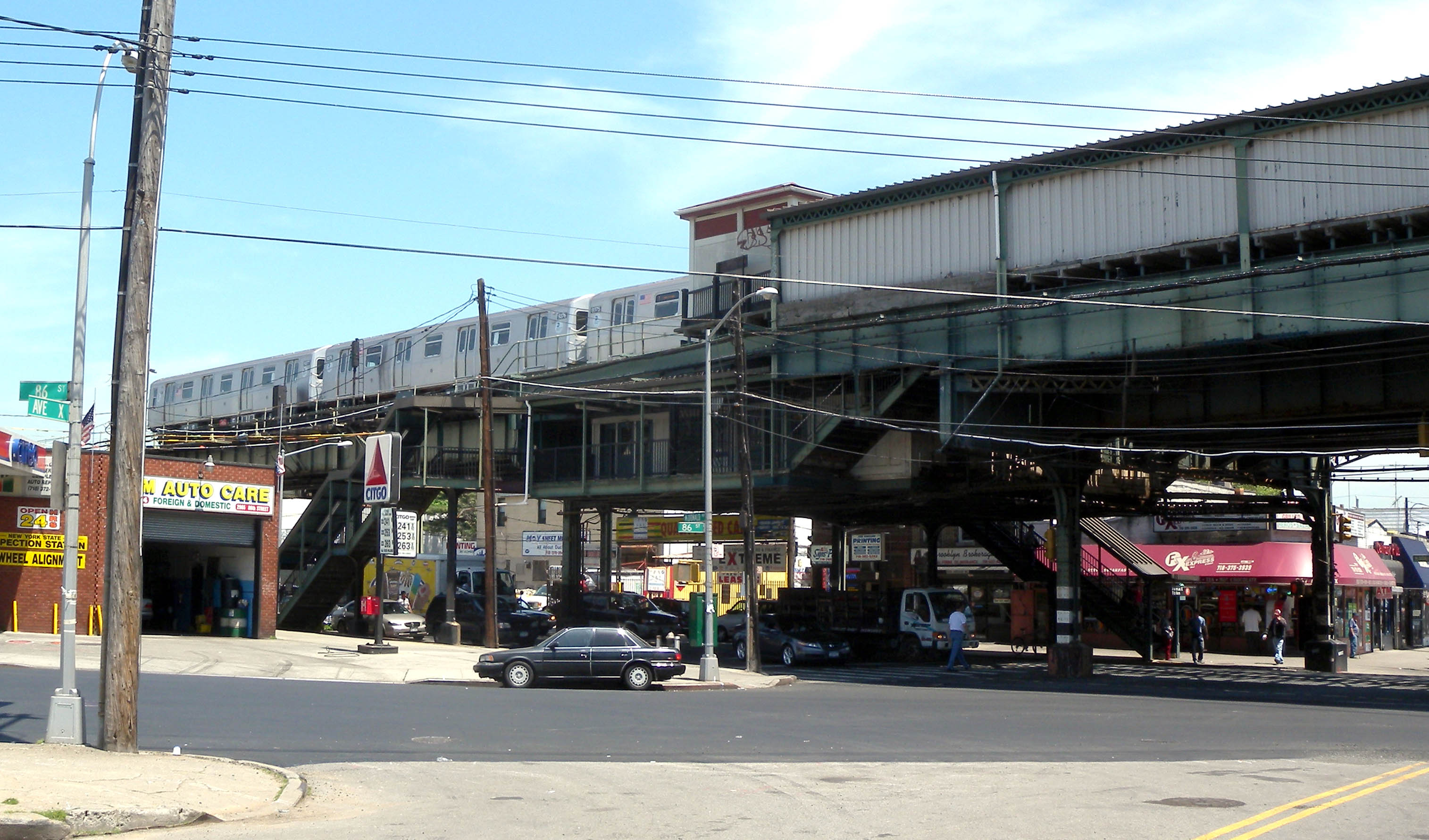 Looking northeast at Avenue X station of Culver Line on a sunny midday. ZIP 12223.